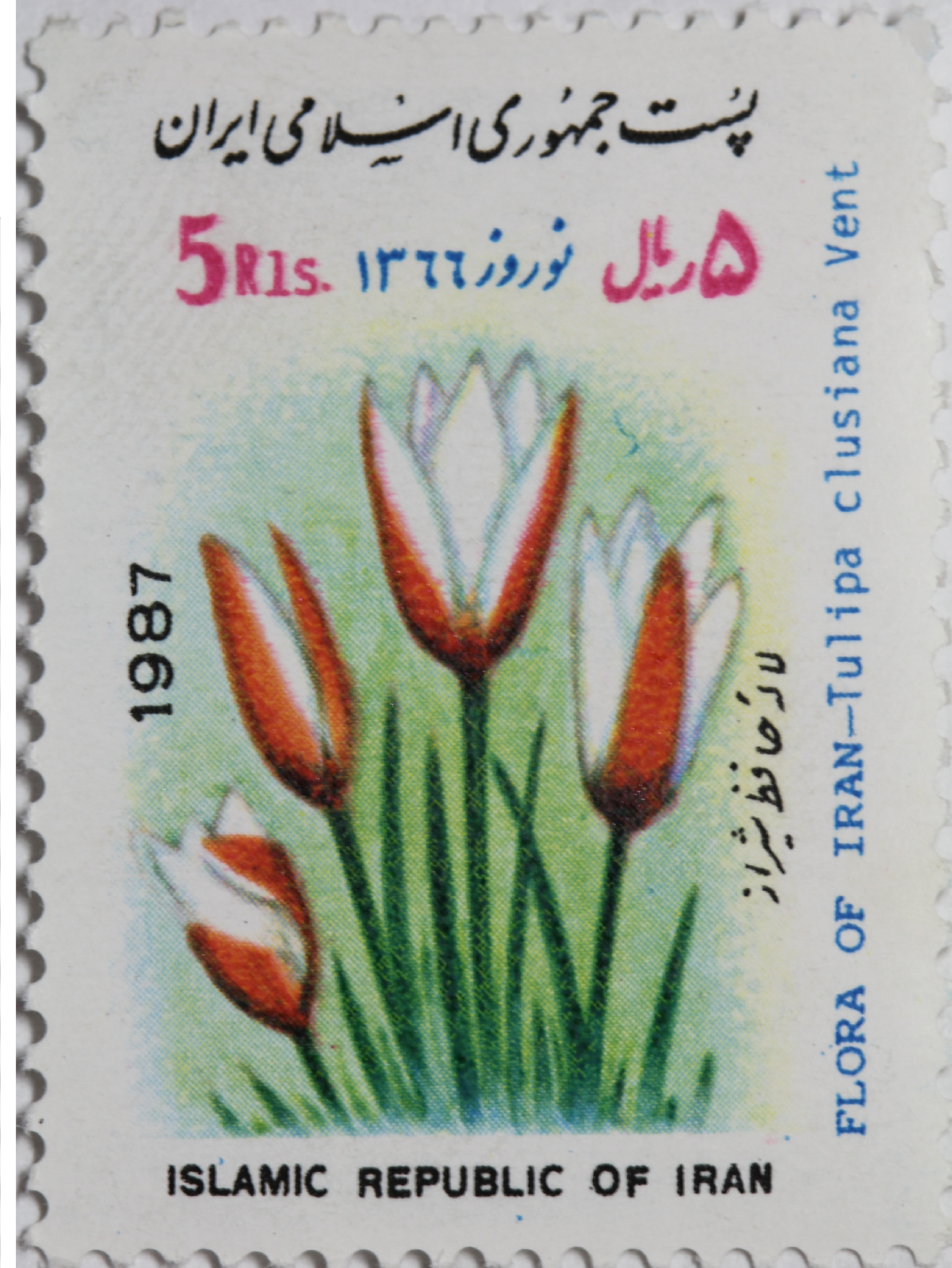 Stamps of iran, Tulipa clusiana